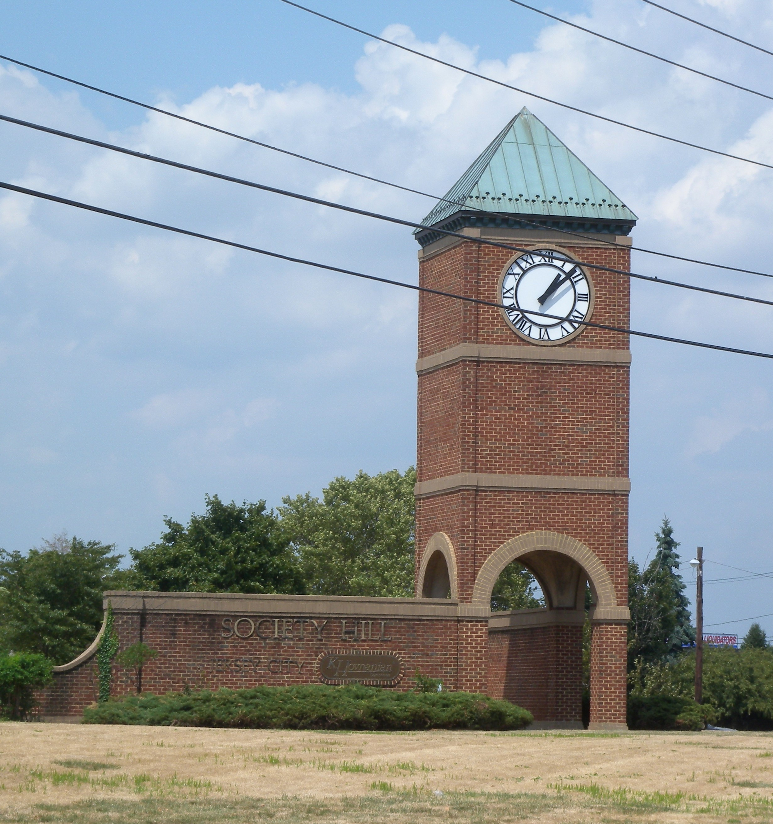 Looking north at Society Hill clock tower on Hwy 440 on a partly sunny midday.